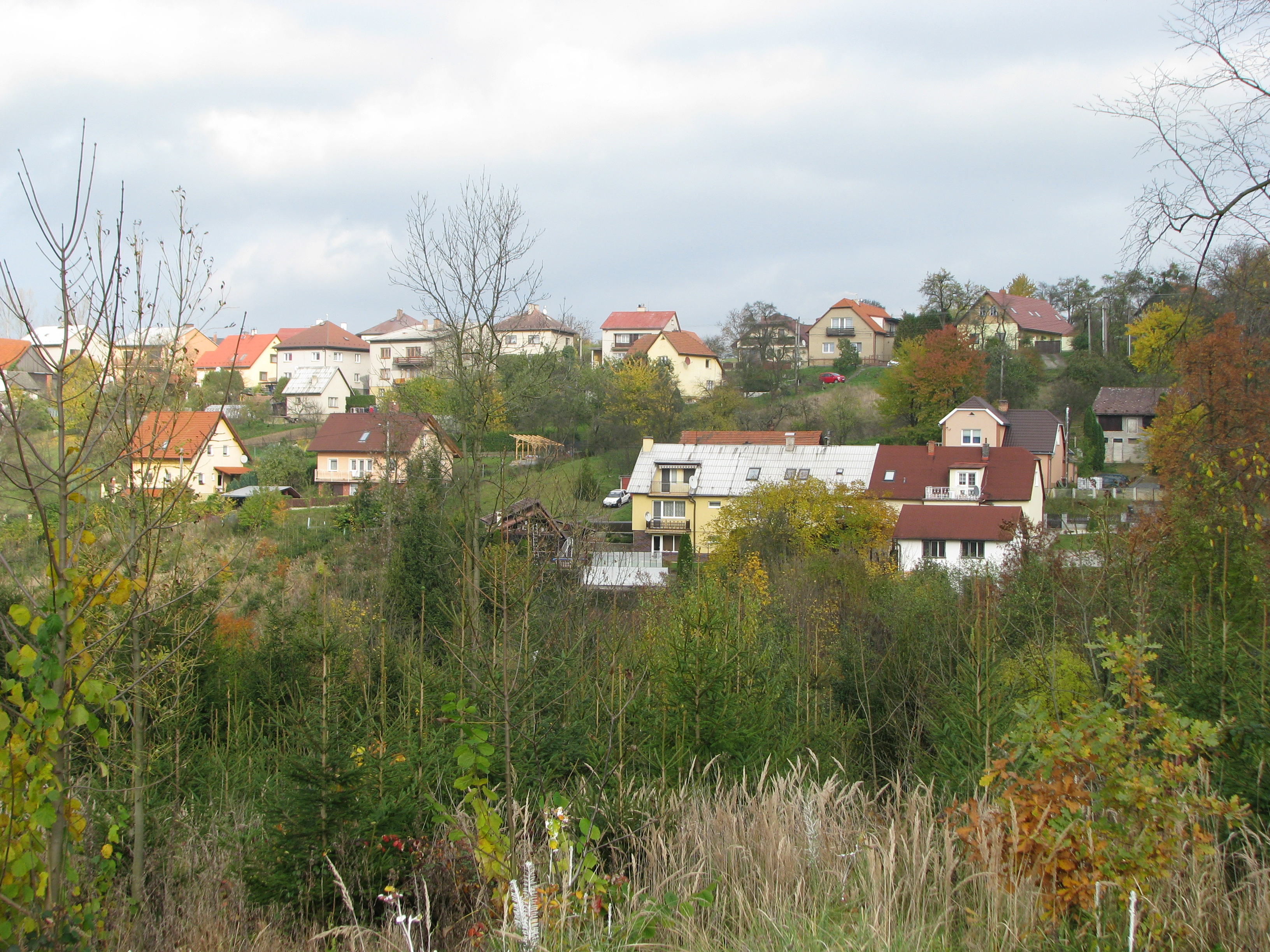 Pohled na Lhotu